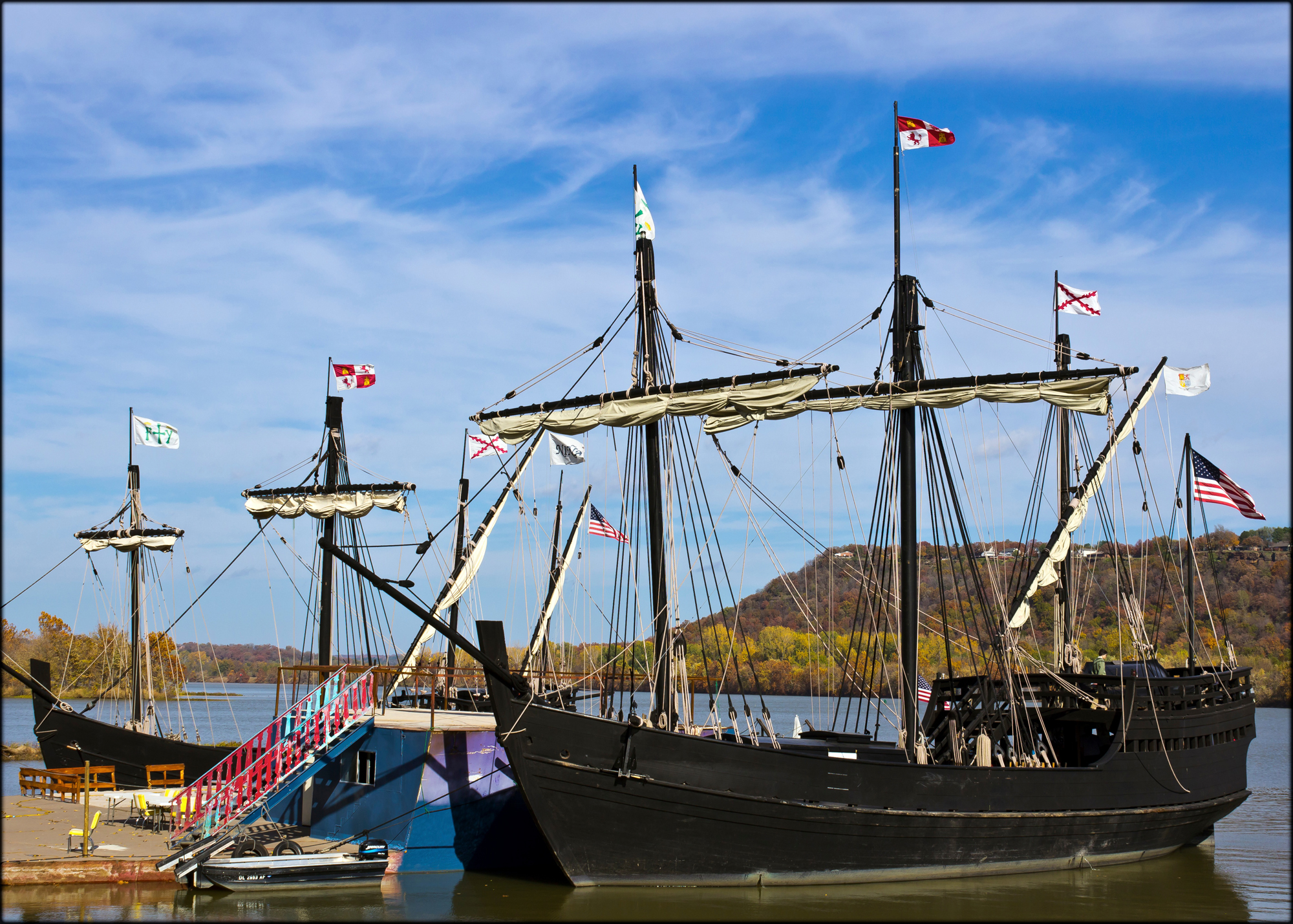 Replicas of the Nina and the Pinta on display at Fort Smith Park.